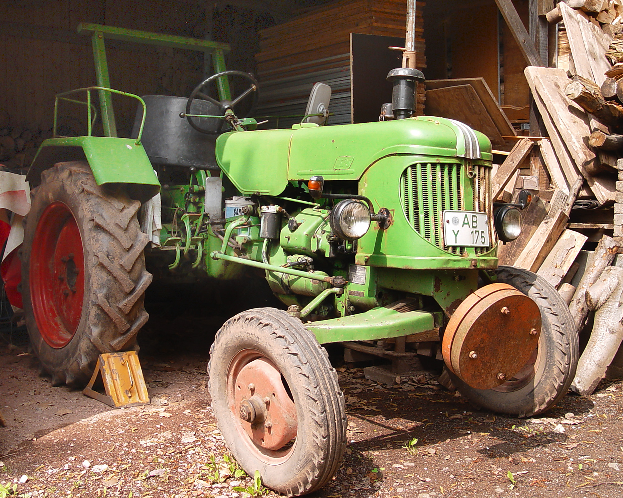 Tractor Gueldner ADN10 from 1957 in Aschaffenburg-Gailbach